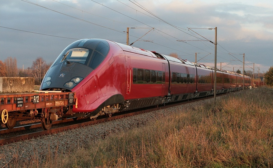 Nuovo Trasporto Viaggiatori AGV